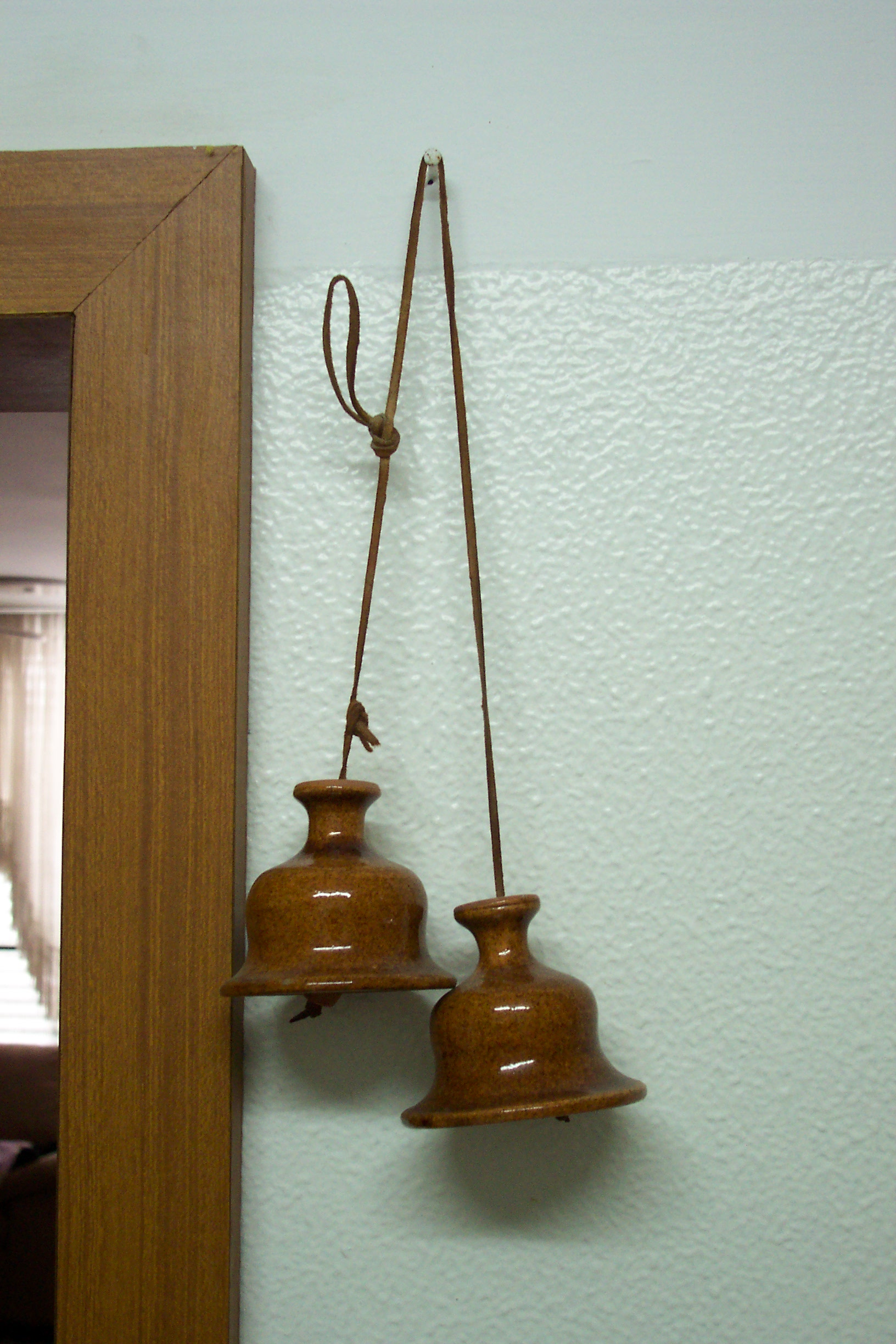 Two brown bells are tied with string